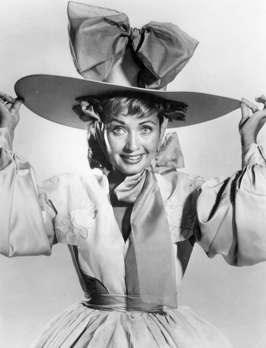 Publicity photo of Jane Powell in the television special presentation Feathertop. She's dressed in a Hollywoodized version of ca. 1830 clothing styles (compare Image:Waist-and-Extravagance-ca-1830-fashion-satire-Heath.jpg).